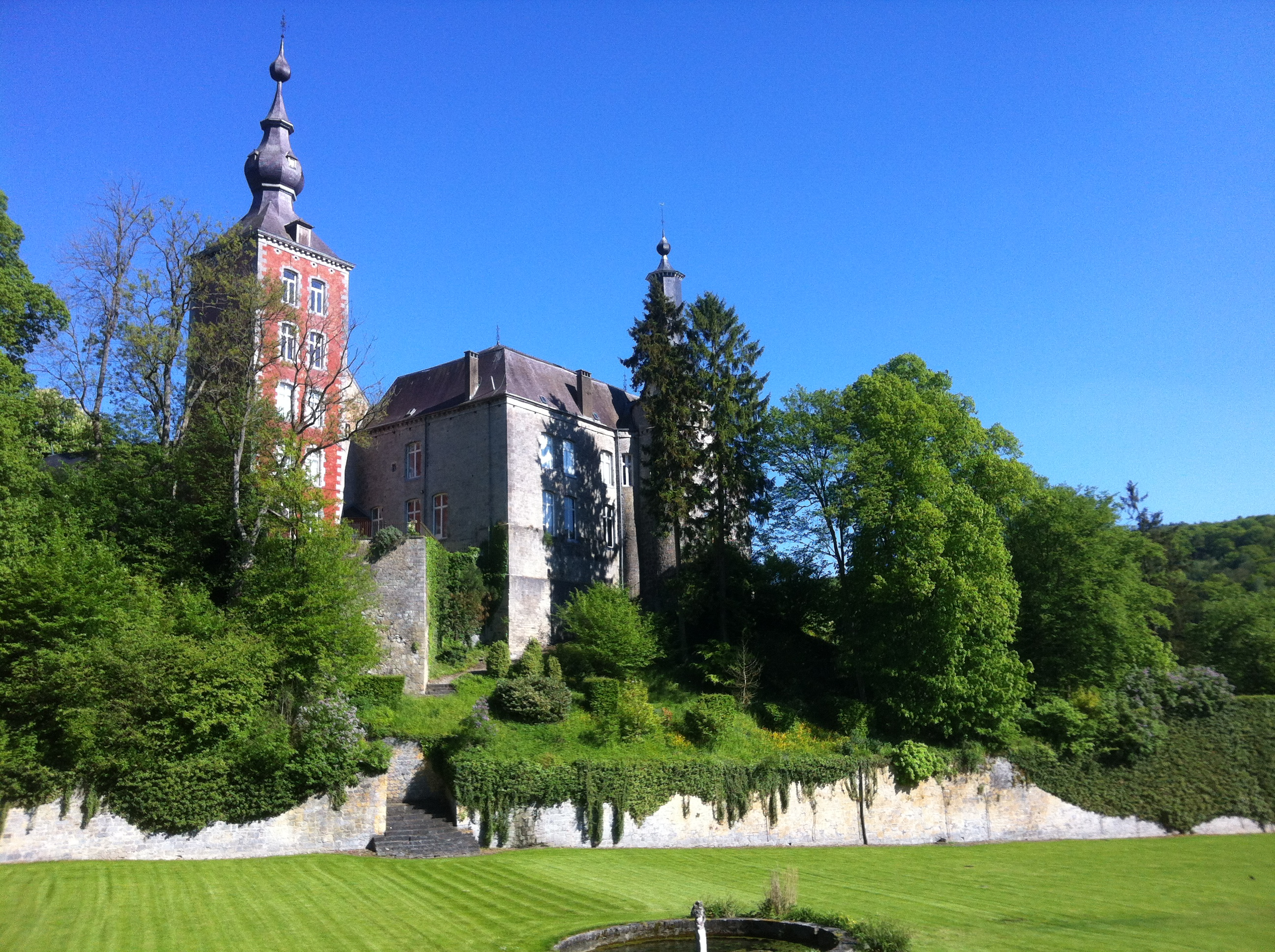 Vierves-sur-Viroin (Belgium), the castle (XV-XIXth centuries).